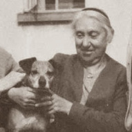 Beatrice May Baker, headmistress of Badminton School, flanked by, left, Miss Webb-Johnson and Miss Rendall c. 1940